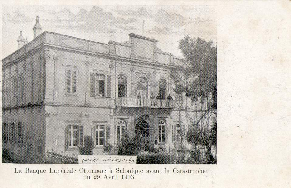 Ottoman Bank Thessaloniki Branch, 1903. SALT Research Ottoman Bank Archives Osmanlı Bankası Selanik Şubesi, 1903. SALT Araştırma Osmanlı Bankası Arşivleri